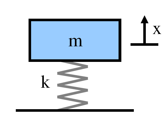 Mass spring